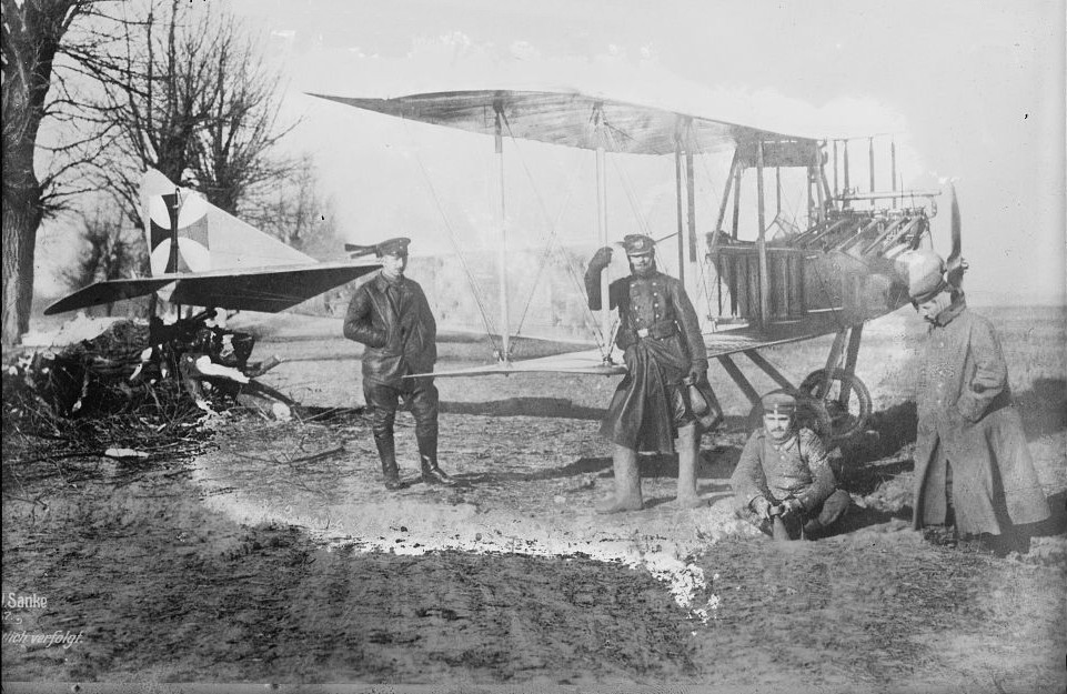 A German Albatros C.I in Poland, ca. 1915.